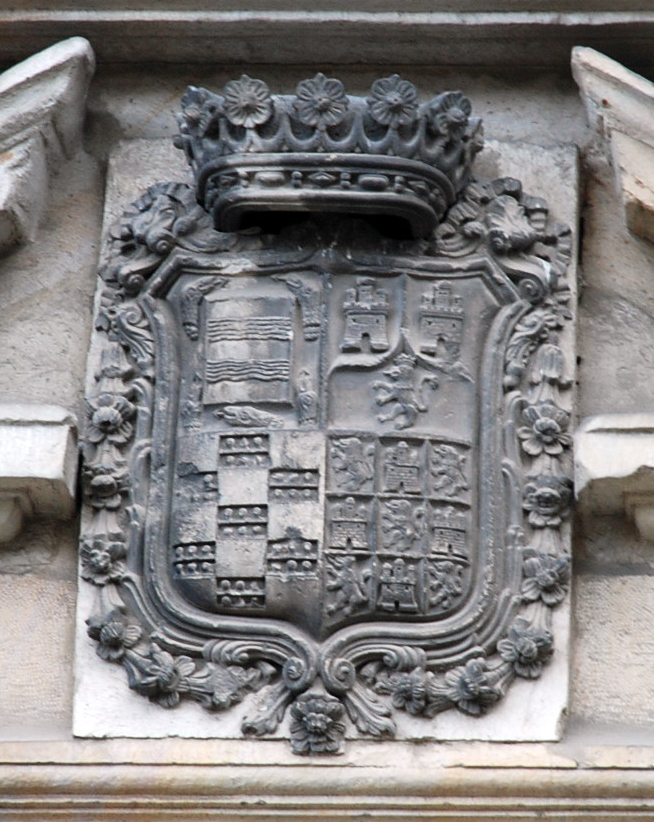 Reliefs of coats of arms of the Palace of la Casona in Reinosa (Cantabria).